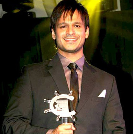 Vivek Oberoi at Sailor Today Awards